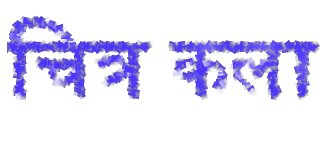 art